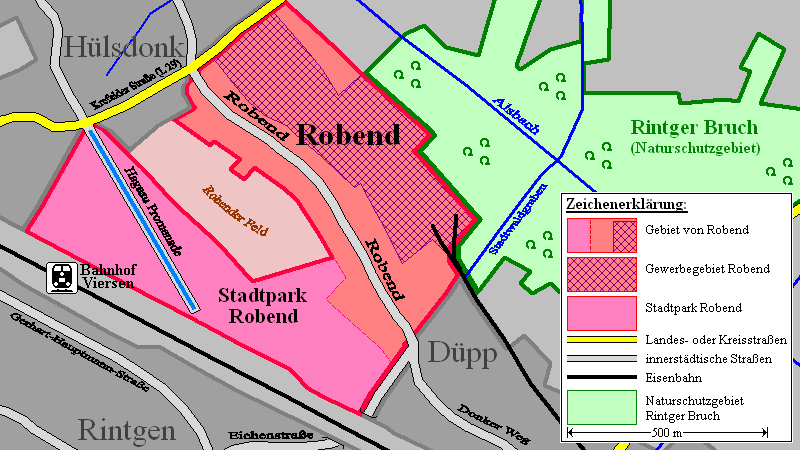 Map of Robend, Viersen, Germany.